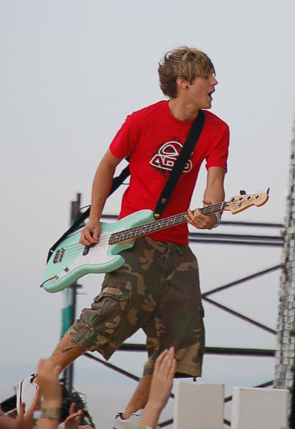 Dougie Poynter of McFly performs onstage at T4 Beach in Weston Super Mare.